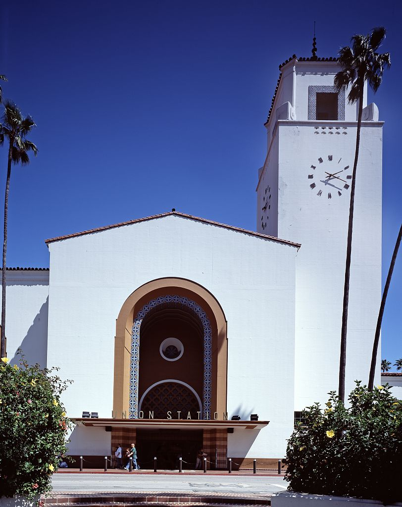 A 135-foot clock and observation tower dominates Los Angeles's Union Passenger Terminal, completed in 1939.